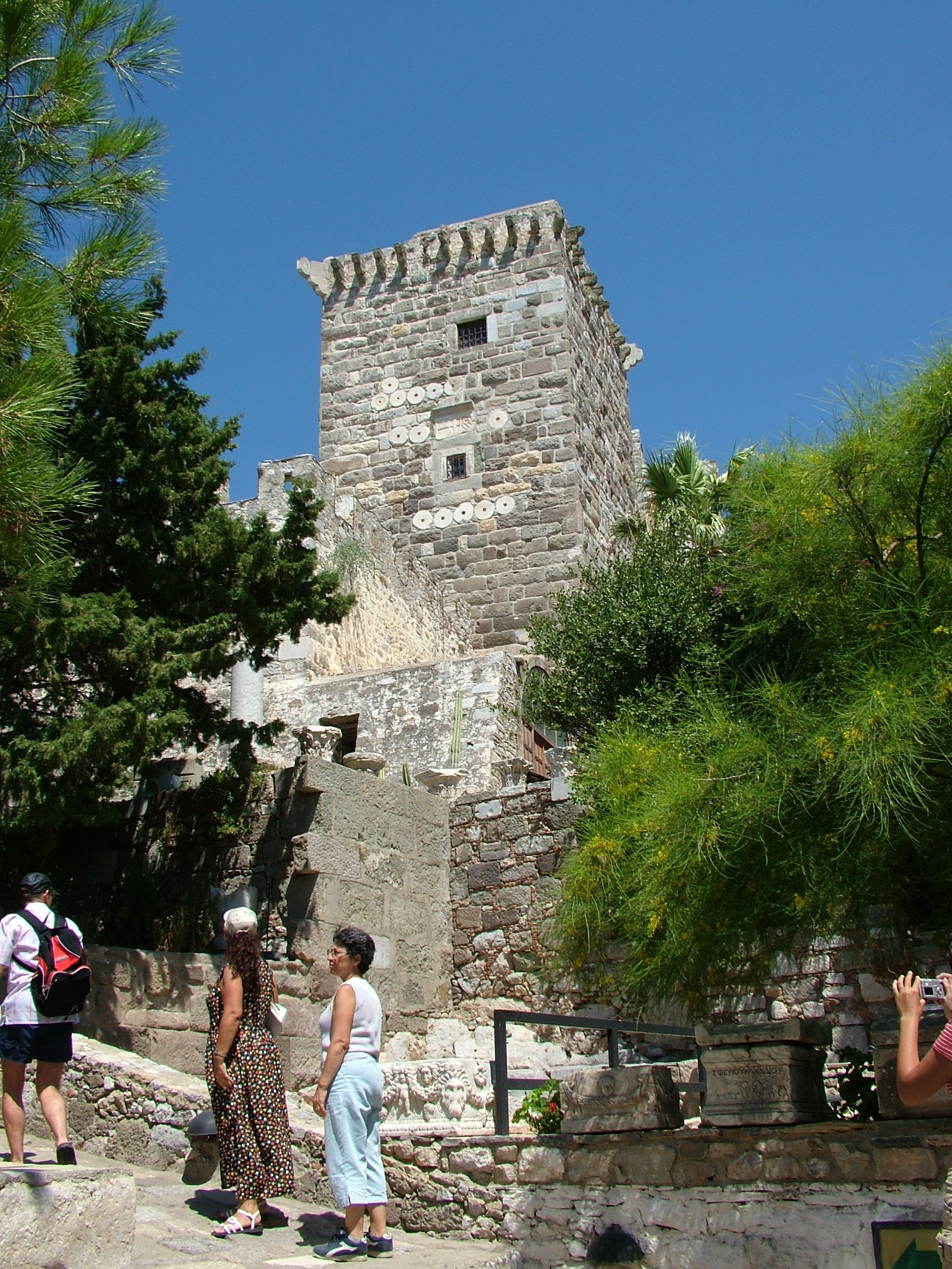 Castle tower in Bodrum, Turkey